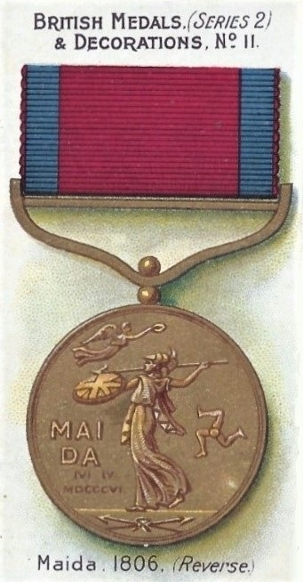 British campaign medals awarded to senior army officers present at the Battle of Maida, 4 July 1806.